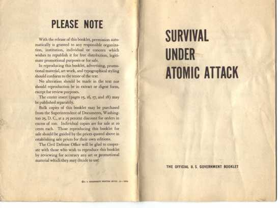 Survival Under Atomic Attack is the title of an official U.S. government booklet released by the Executive Office of the President, the National Security Resources Board (document 130), and the Civil Defense Office in 1950.